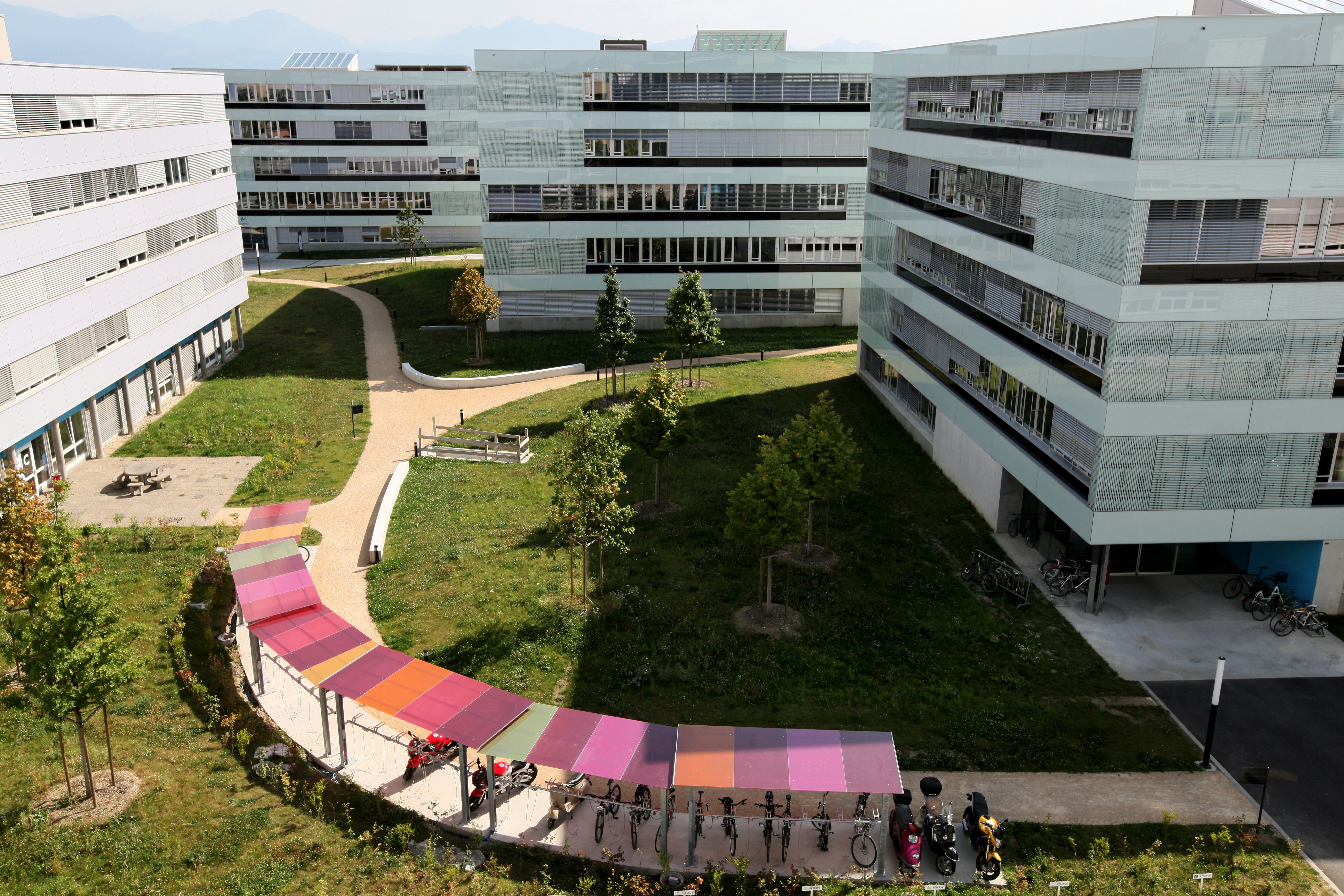 One branch of the Swiss Innovation Park is located on the campus of the École polytechnique fédérale de Lausanne, at the shores of Lake Geneva.